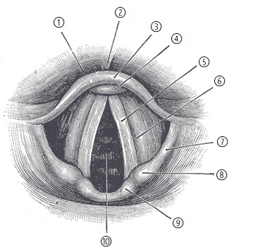 Gray956.png improved by replacing English words in the image by numbers from 1 to 10